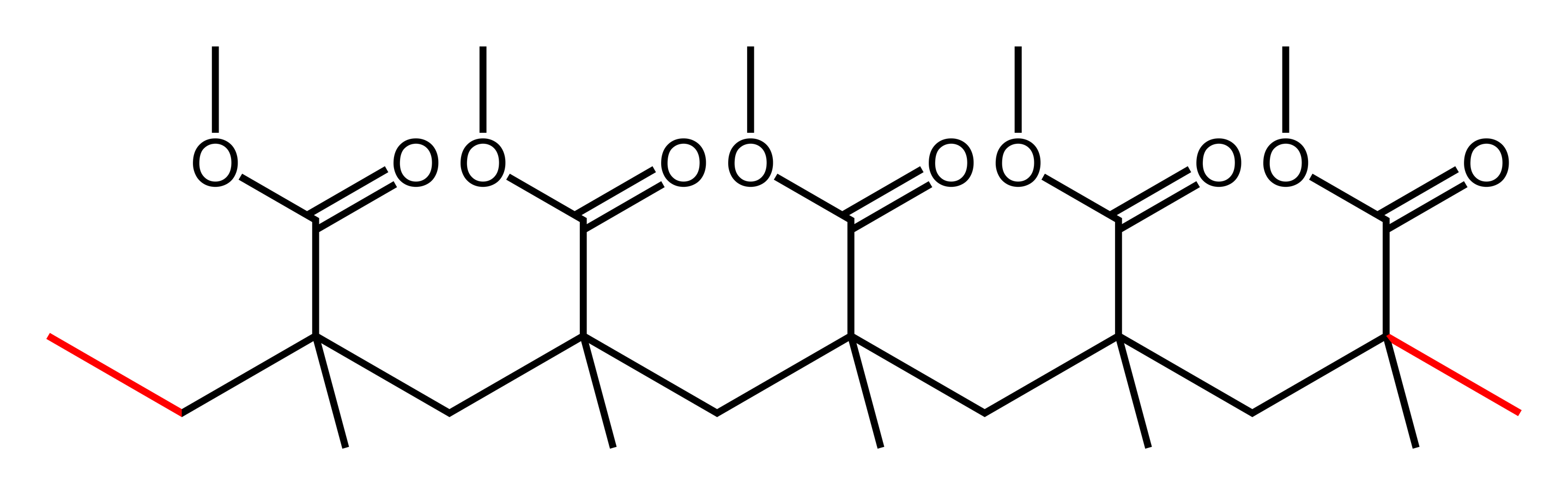 Description: Skeletal formula of a short length of a polymethyl methacrylate chain (Perspex, (C5O2H8)n). Author, date of creation: self made by Ben Mills at 21:24, 9 March 2006 (UTC). Source: user-created image Comments: high-resolution black and white PNG; ChemDraw / Photoshop.